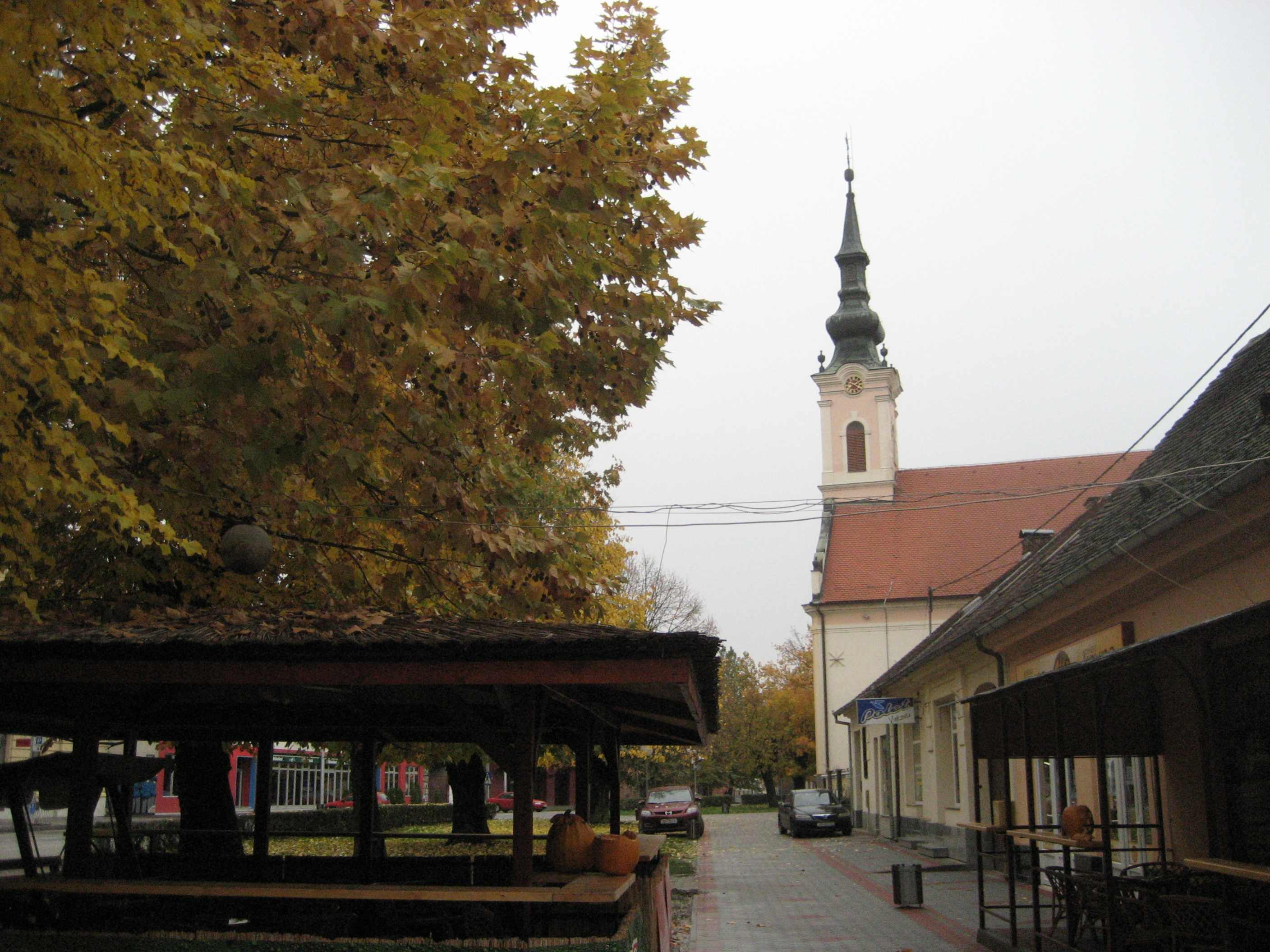 Zupanja:In the morning after a halloween party